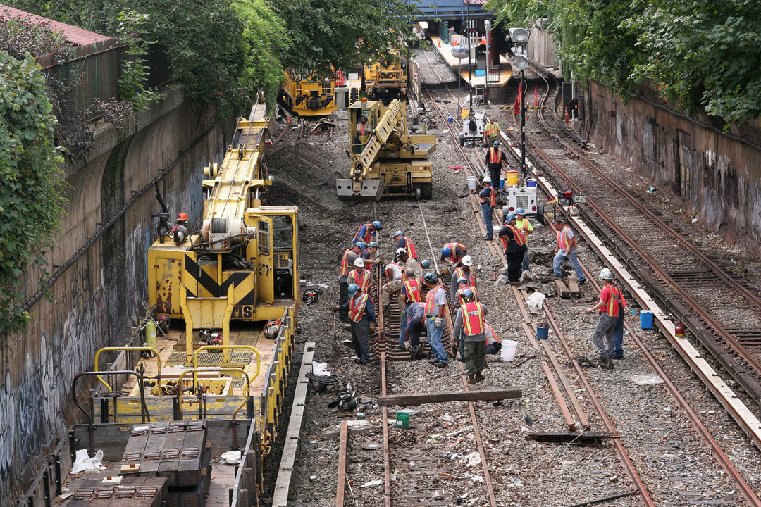 On the weekend of September 8–10, 2011, work was conducted on the Brighton Line as part of the conclusion of the 2009–2011 station rehabilition project. The station in the background is Newkirk Avenue. Photo by Metropolitan Transportation Authority / Leonard Wiggins.